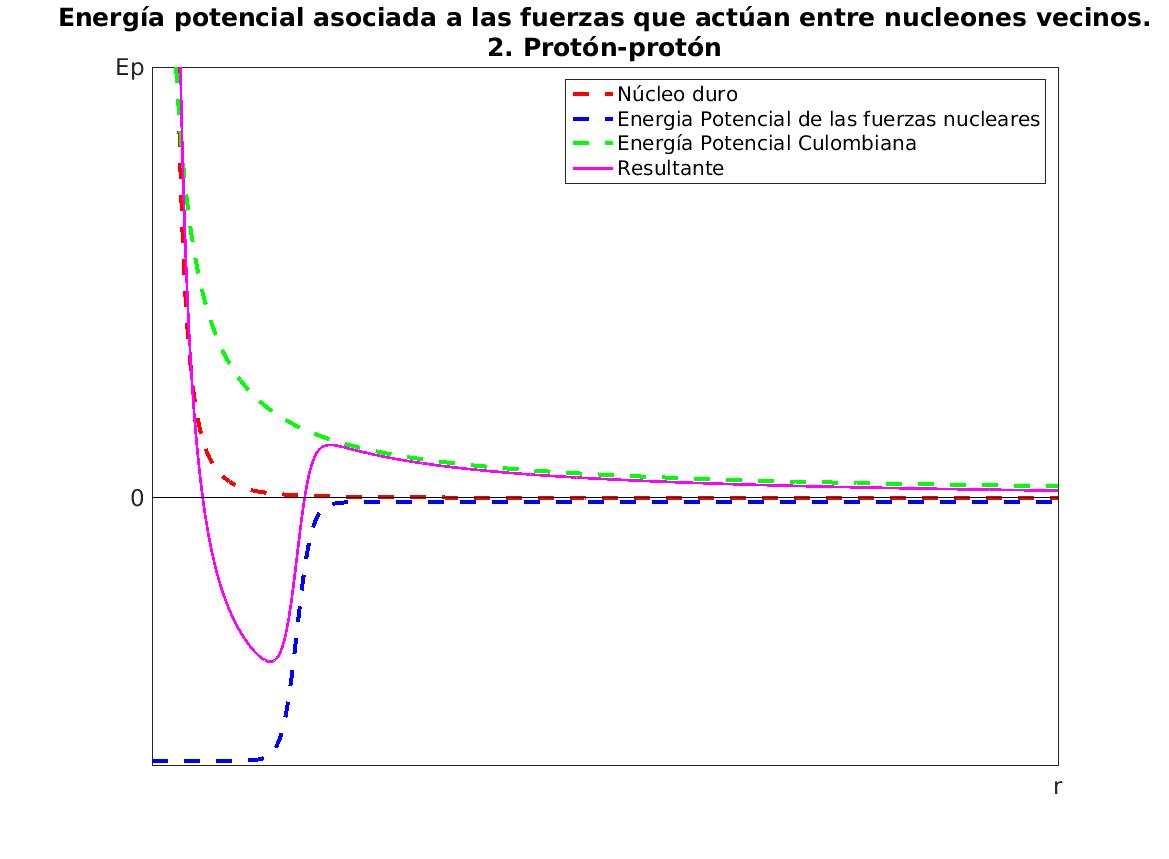 Potential energy plot for the forces between neighbouring nucleons. Proton-proton.